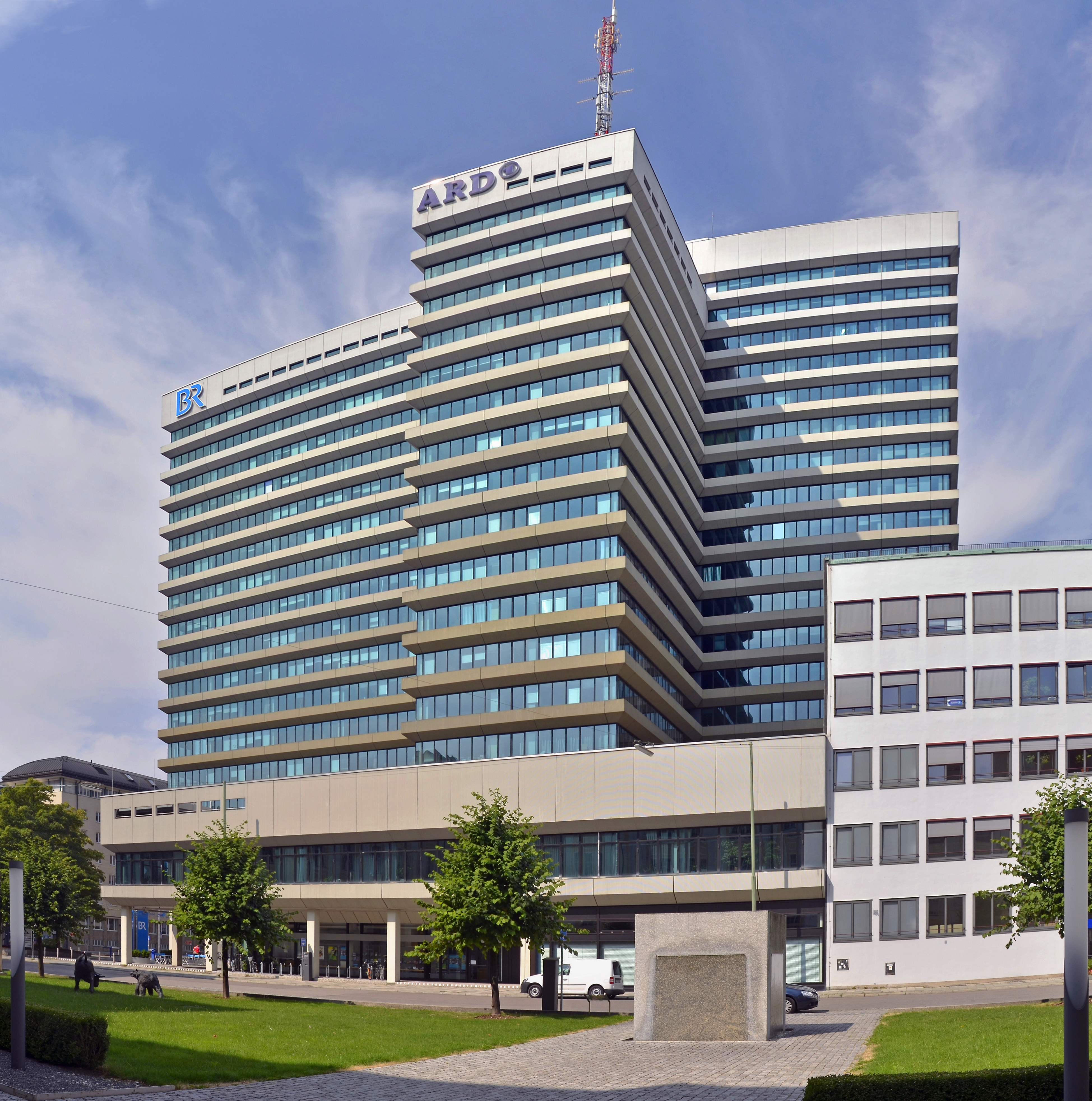 Bayerischer Rundfunk Headquarters in Munich